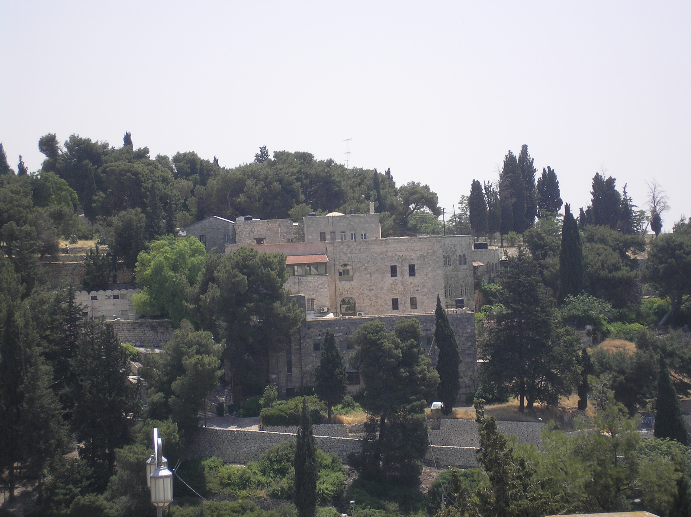 Mount Zion - Gobat's School (since 1967 Jerusalem University College, est. in 1957 elsewhere as American Institute of Holy Land Studies)